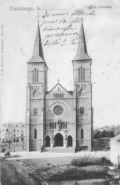 Église Saint-Martin in Dudelange, front view.